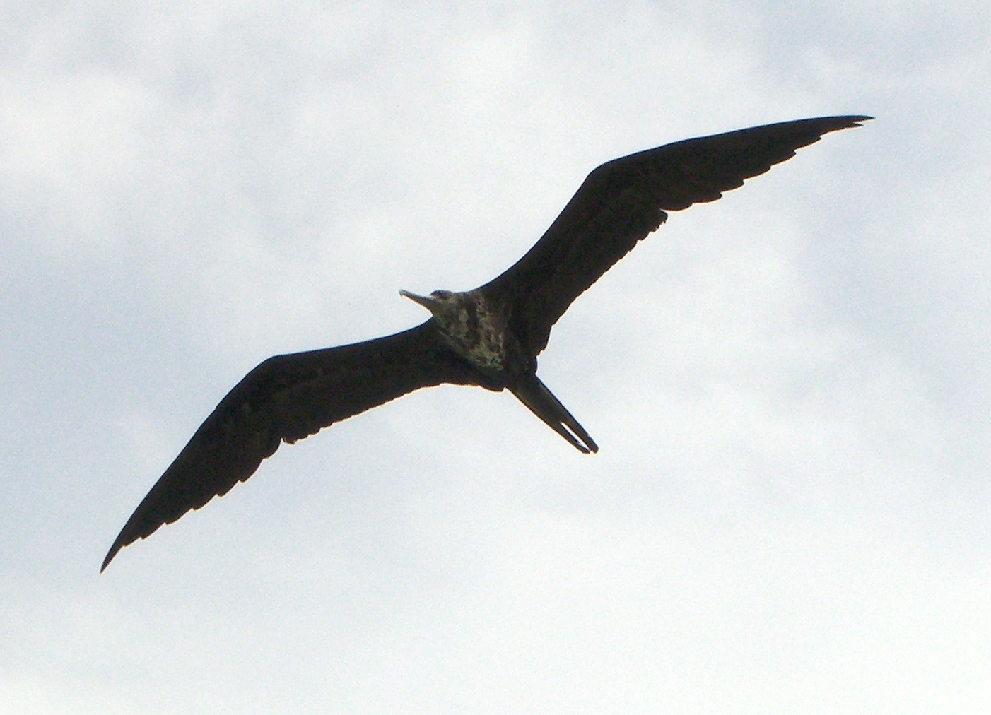 Please report references to .